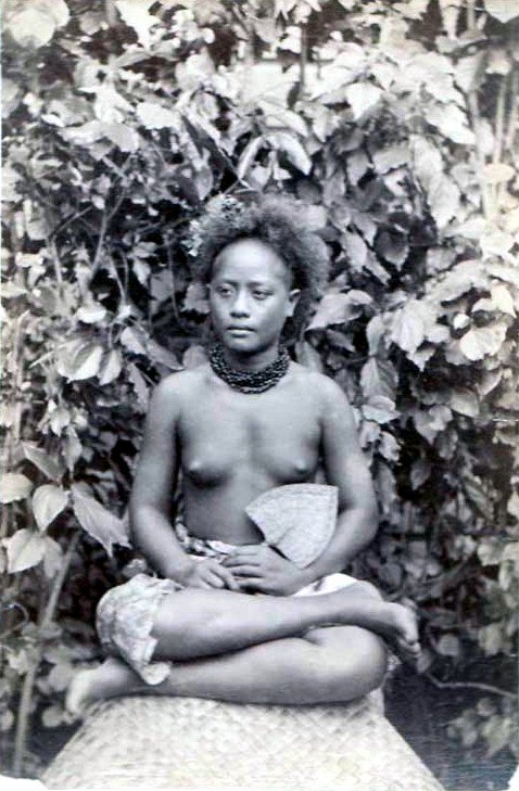 Young Tongan woman. Albumen photograph, c 1885